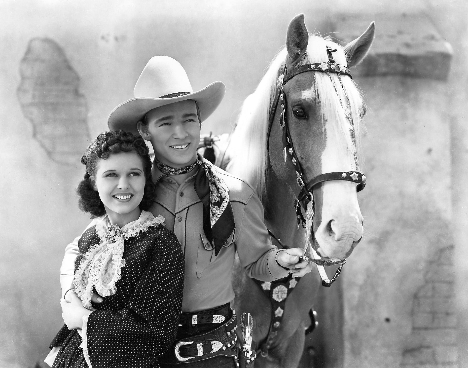 Lynne Roberts and Roy Rogers in Billy the Kid Returns (1938) - publicity still